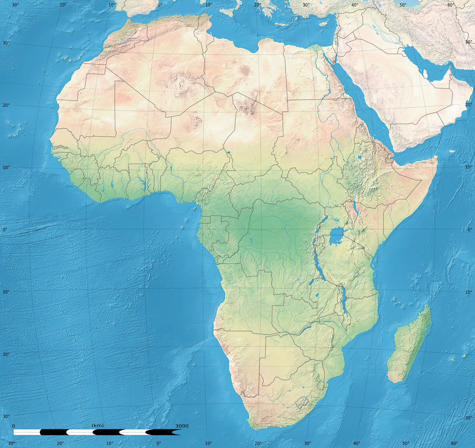 Simulated land cover map of Africa showing the natural aspect of the land with bathymetry as it could be seen from space; for geo-location purposes. Borders as in July 2011.